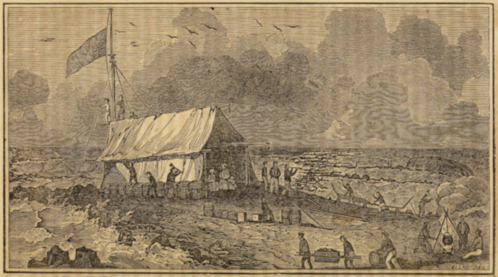 A view of the encampment of the shipwrecked company of the Royal Charlotte, on Frederick's Reef. Shipː Royal Charlotte of London, Captain Joseph Corbyn. Taken from the book The tragedy of the seas; or, Sorrow on the ocean, lake, and river, from shipwreck, plague, fire and famine published (1848). First published 1841. See page 284.